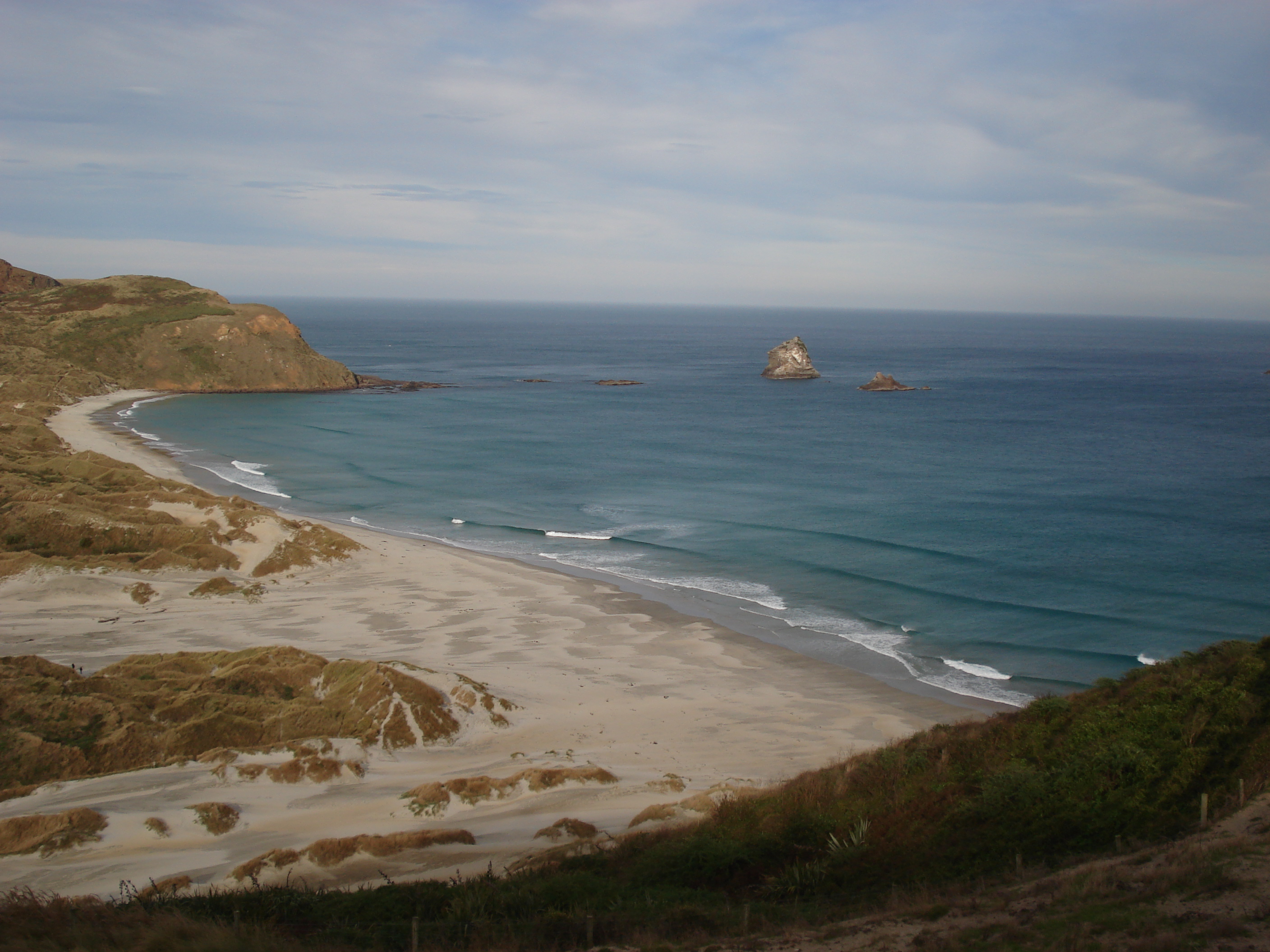 Sandfly Bay is located on the Otago Peninsula of New Zealand.